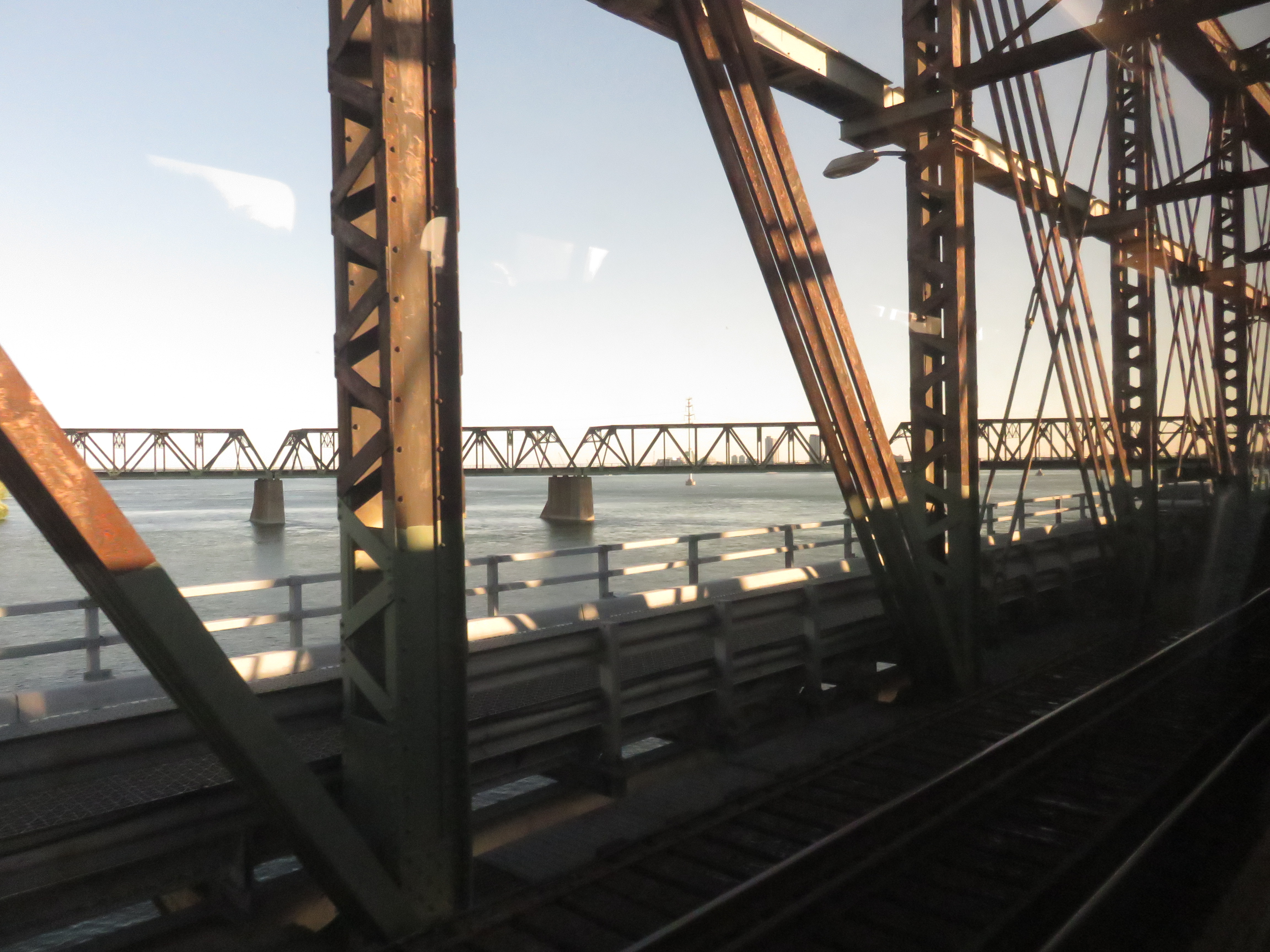 Deck of the Victoria Bridge in Montreal, Quebec from the Adirondack Amtrak train in 2017